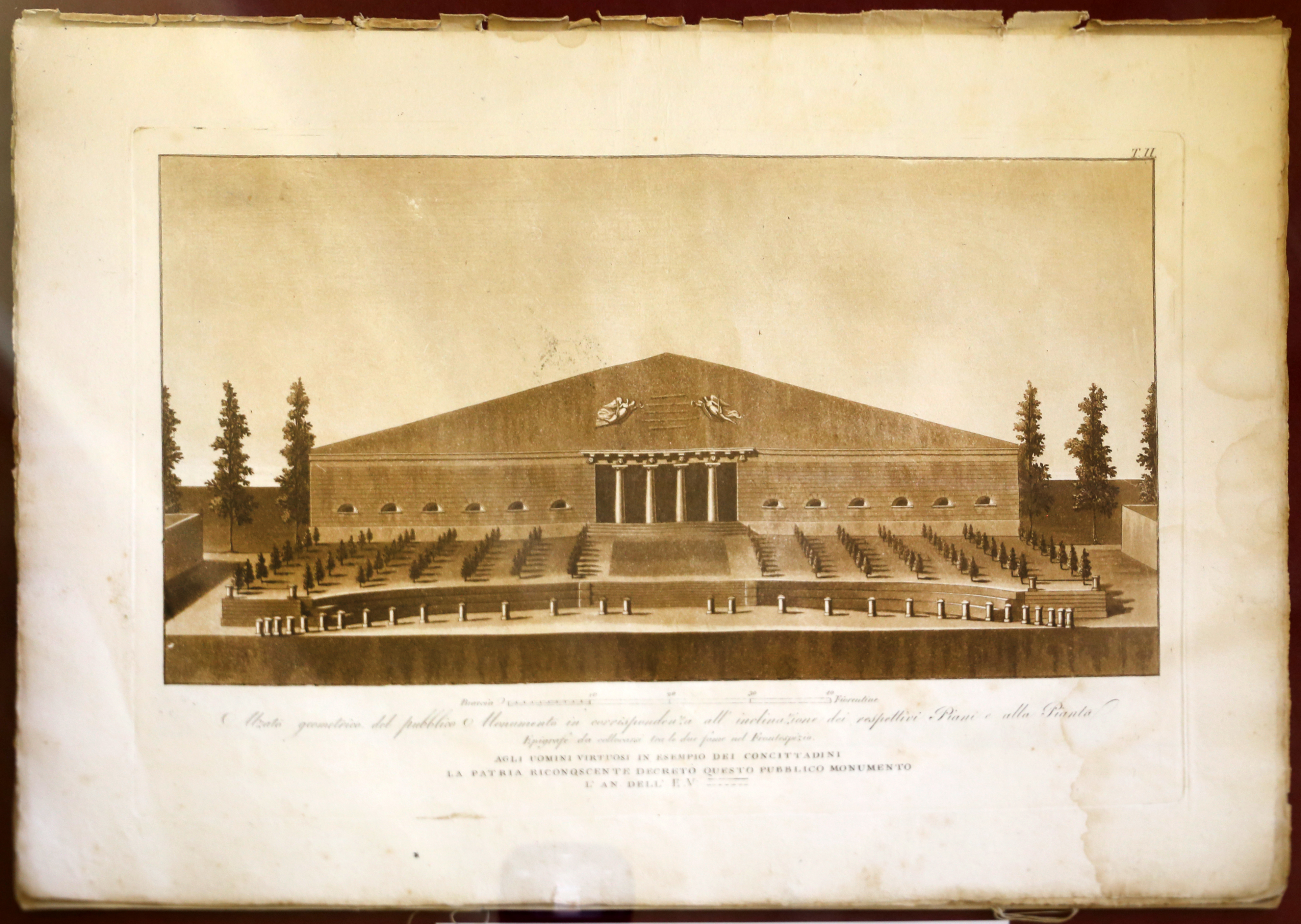 Biblioteca Forteguerriana books